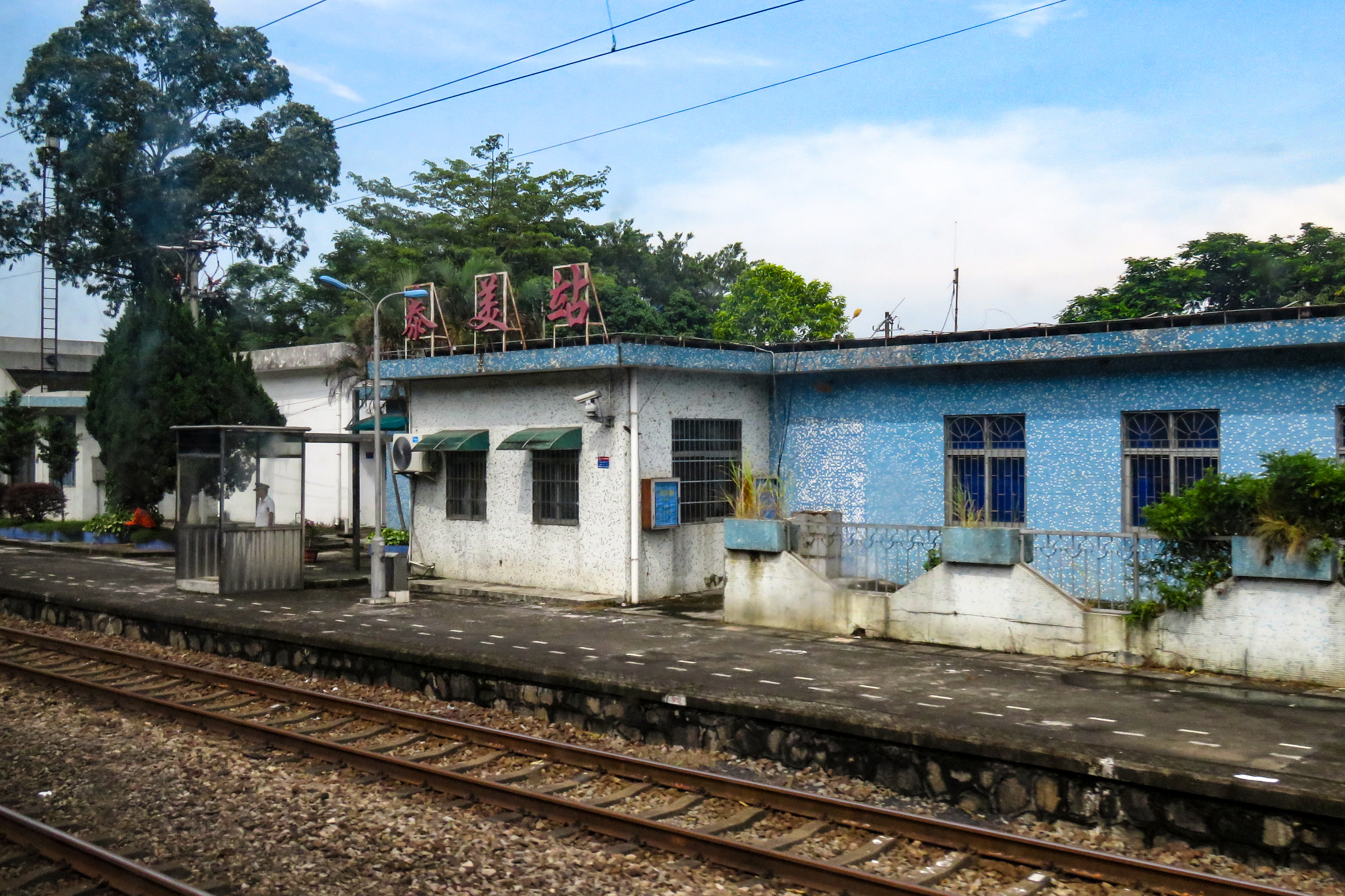 Can't help thinking about the CXK meme...